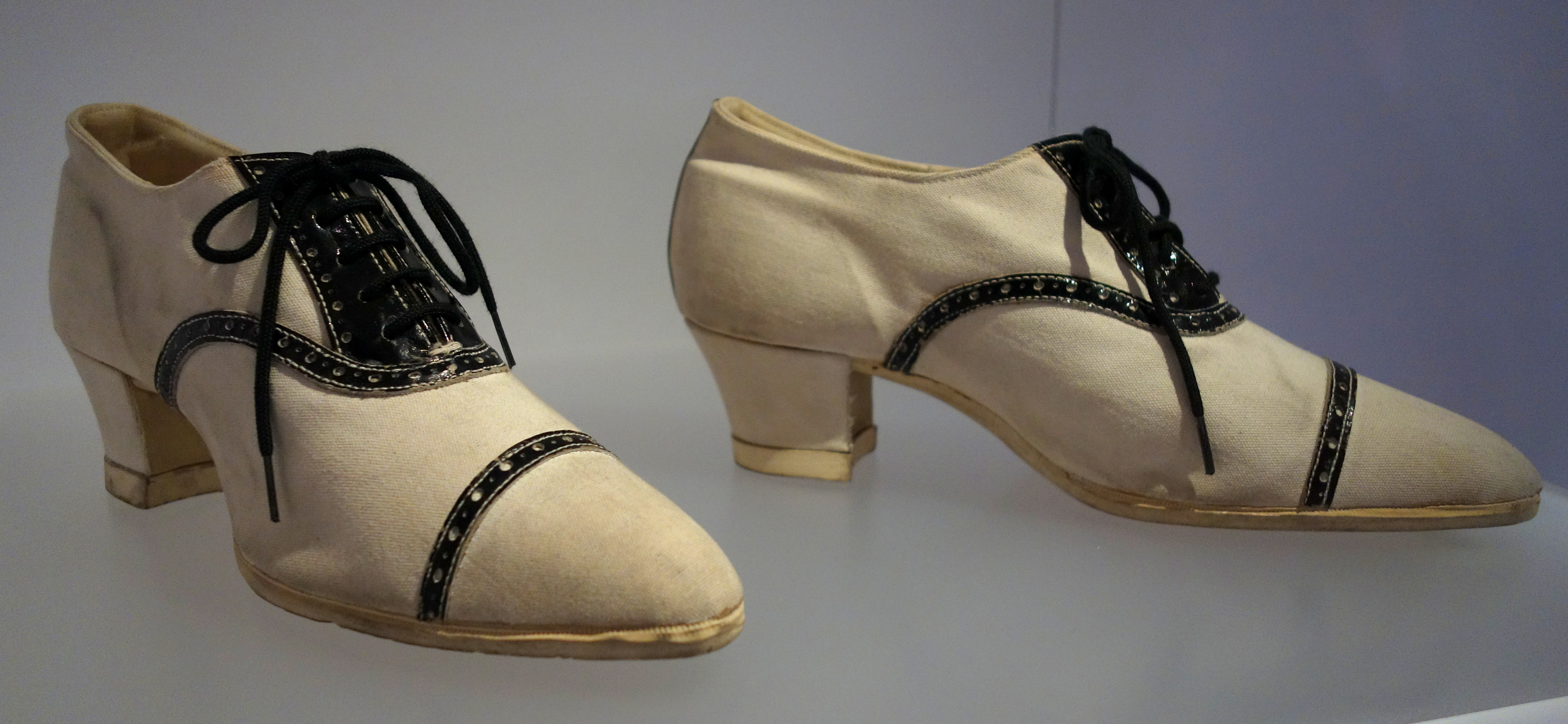 Exhibit in the Bata Shoe Museum, Toronto, Ontario, Canada. This item is old enough so that its design is in the public domain. The museum permitted photography without restriction.